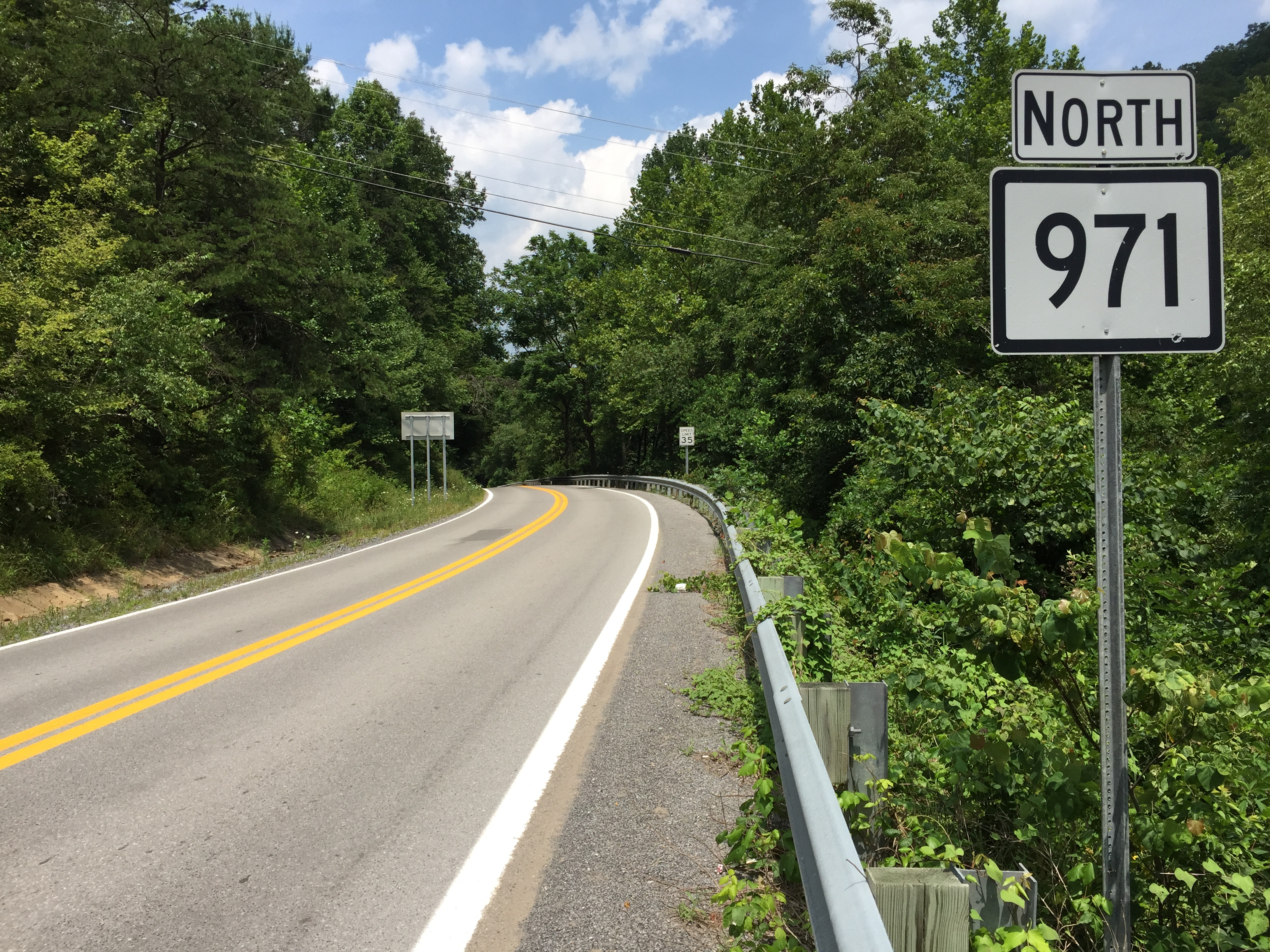 View north along West Virginia State Route 971 (Clear Fork Road) at West Virginia State Route 97 in Baileysville, Wyoming County, West Virginia